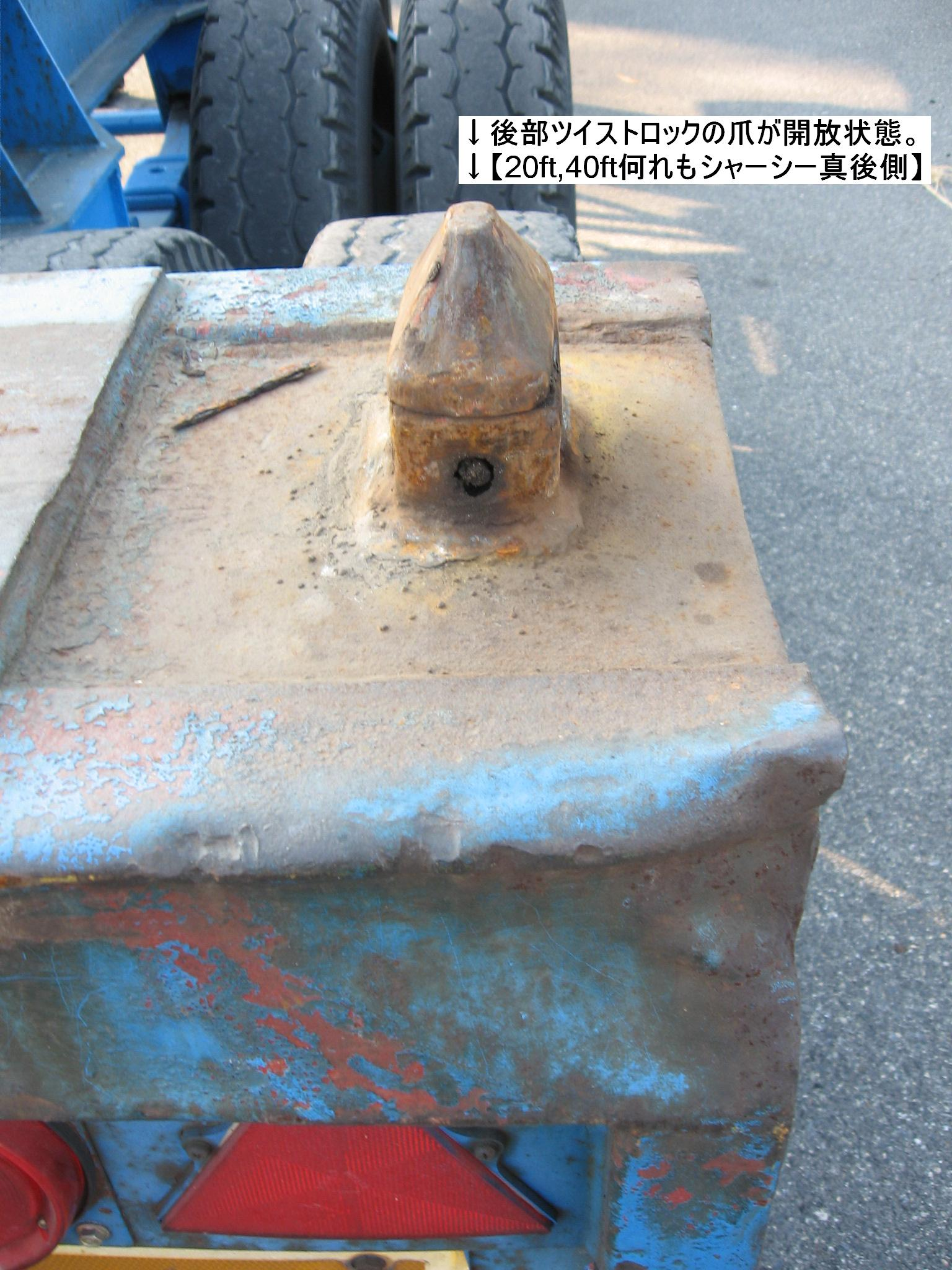 Twistlock connector for container fixing on a trailer, unlocked situation